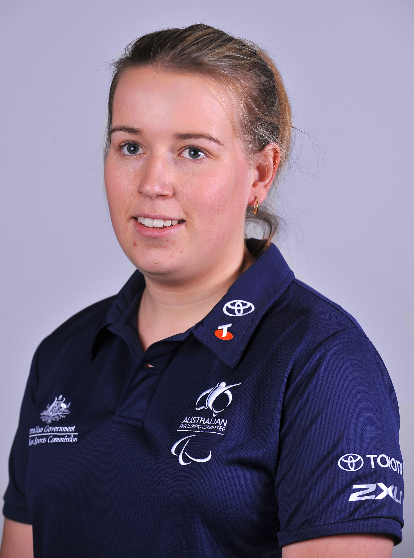 Portrait of Australian goalball player Rachel Henderson, 2012 Australian Paralympic (shadow) Team athlete